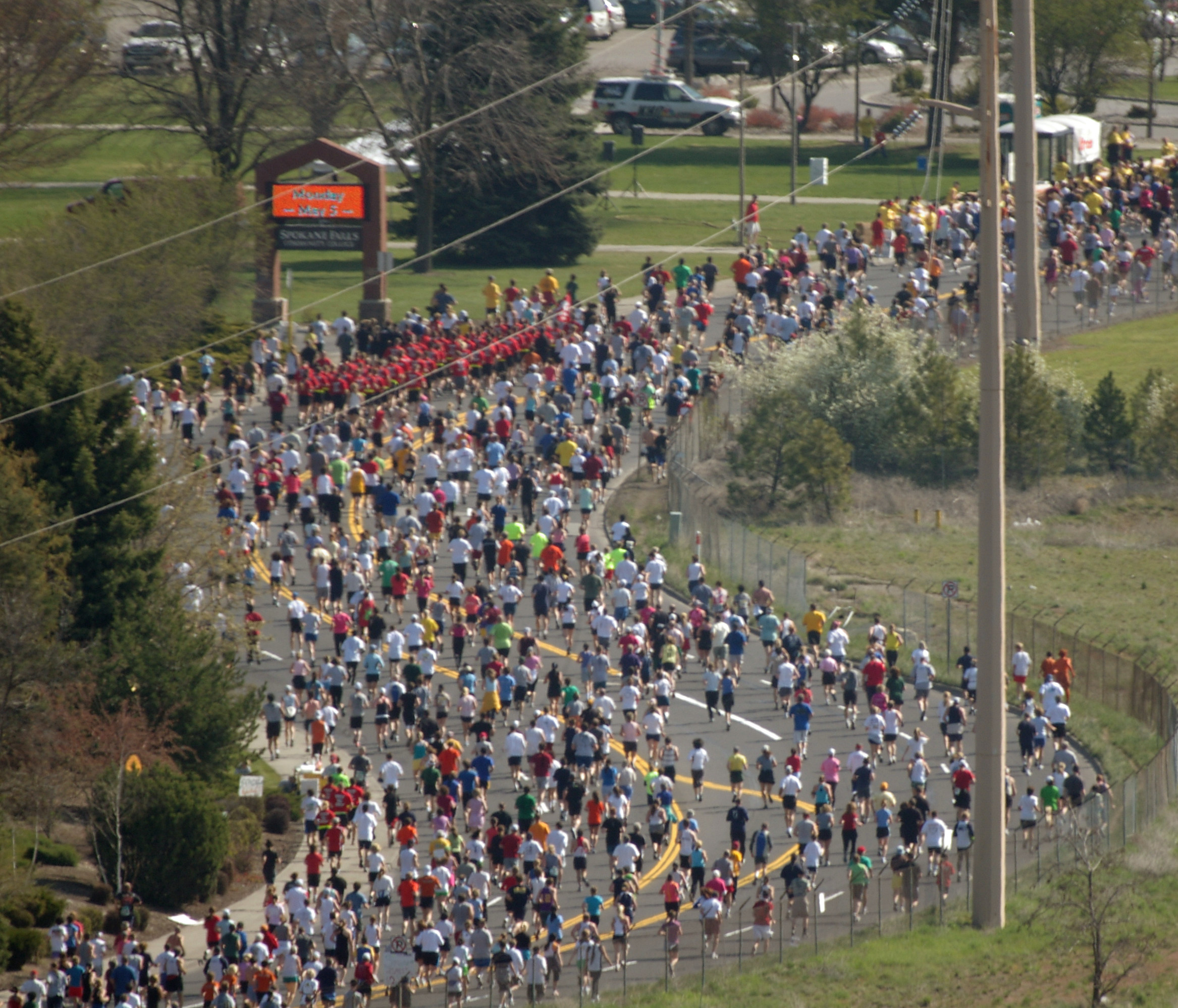 Runners head down Fort George Wright Drive during Spokane's 2008 Bloomsday race.